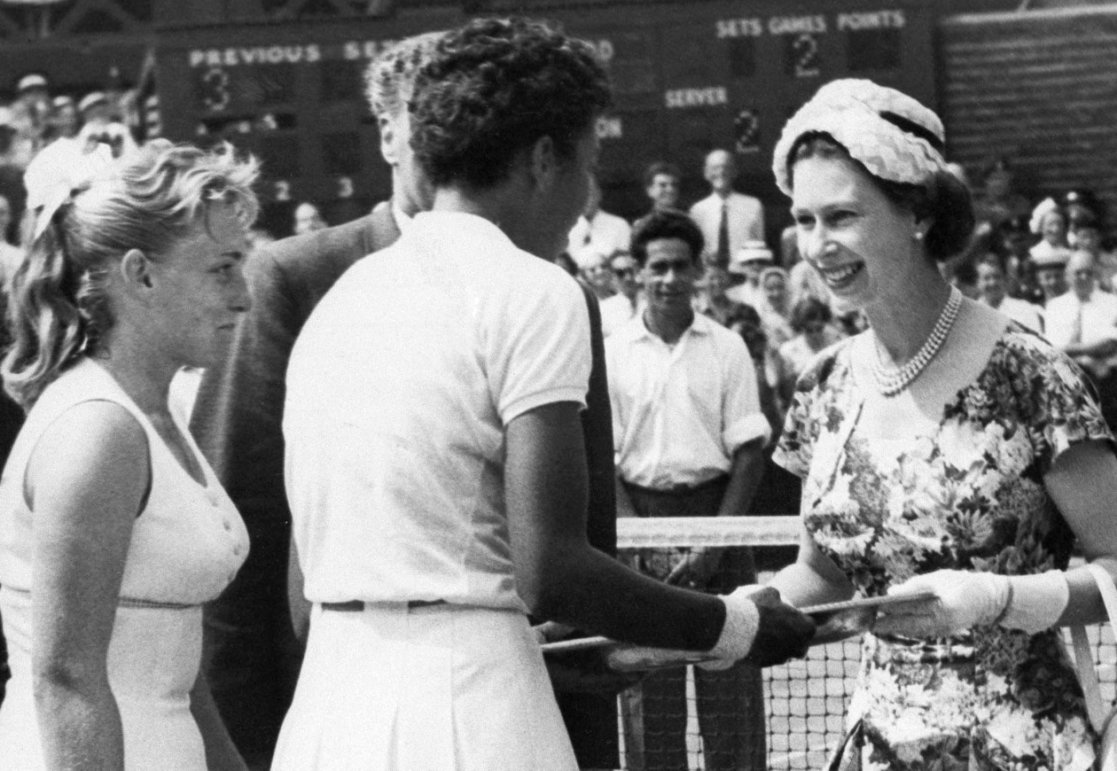 Photograph of Queen Elizabeth II presenting Althea Gibson with the Venus Rosewater Trophy at the 1957 Wimbledon Women's Singles Championships. Gibson defeated Darlene Hard (left), her doubles partner; Hard and Gibson were the 1957 Wimbledon Women's Doubles Champions. Caption reads as follows: ROYAL HAND FOR CHAMPION—Smiling Queen Elizabeth II presents the championship trophy—a large gold plate—to Althea Gibson of New York (center), who won the women's singles tennis title Saturday at Wimbledon, England. Looking on at left is Darlene Hard of Montebello, Calif., defeated by Miss Gibson in the title match.